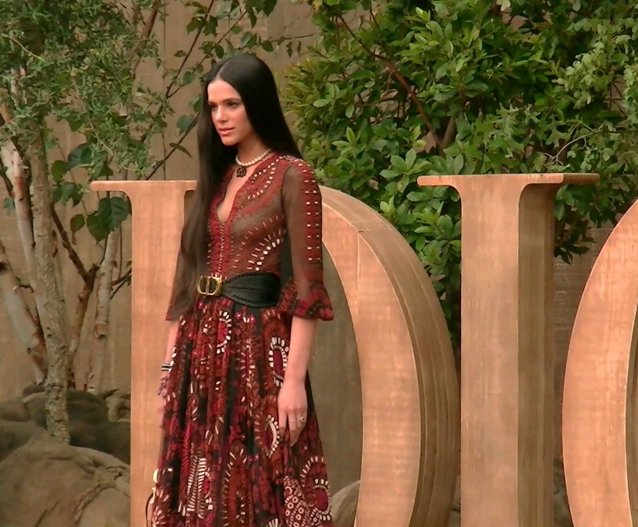 Bruna dior fashion show